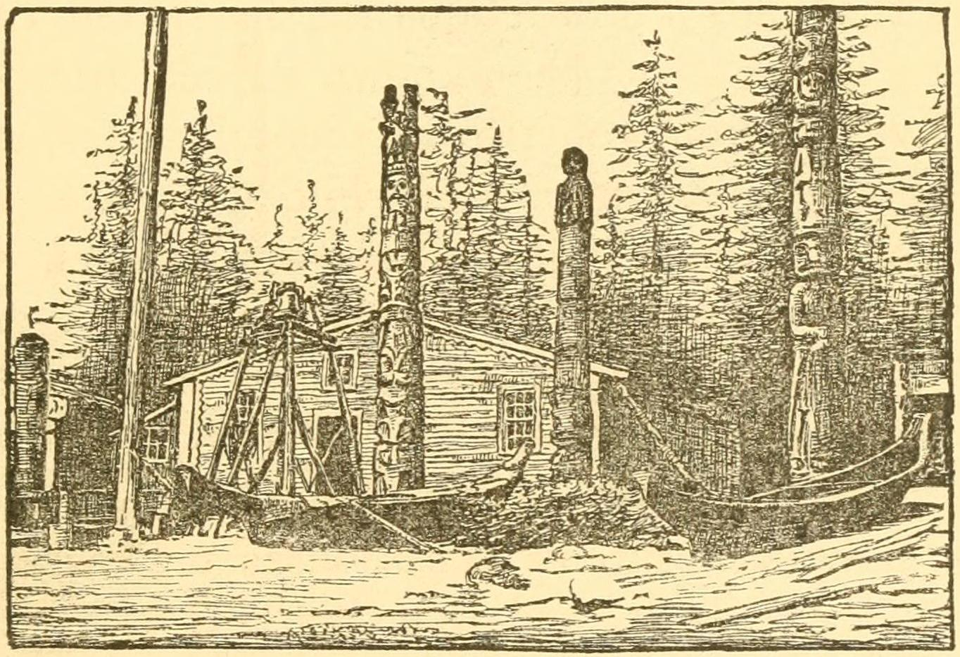 Captioned "Totem poles at Kaigan or Howkan ". A house with horizontal siding and glass windows, totem poles, a bell on a pole tower, and two fishing canoes. Scidmore's text makes it clear that this location was Howkan on Long Island, Cordova Bay, Alaska and that the original village of Kaigahnee, as she spells it, was a different place "many miles distant"; she says that the traders called the present village Kaigahnee more often than Howkan. From her description this is the house of Chief Skolka, the bell resulting from its use as a schoolhouse. The original photograph from which this engraving was made was possibly by Scidmore, 1883. A photographic print [1] of the original image was produced by I.G. Davidson Photos of Portland Oregon as number 218, but there is no indication Davidson ever went to Alaska. The photographer is unidentified, possibly an employee [2], possibly Scidmore. Davidson's caption is "Indian Church at Kaigan, Alaska". Author's name on the publication was given as E. Ruhamah Scidmore.